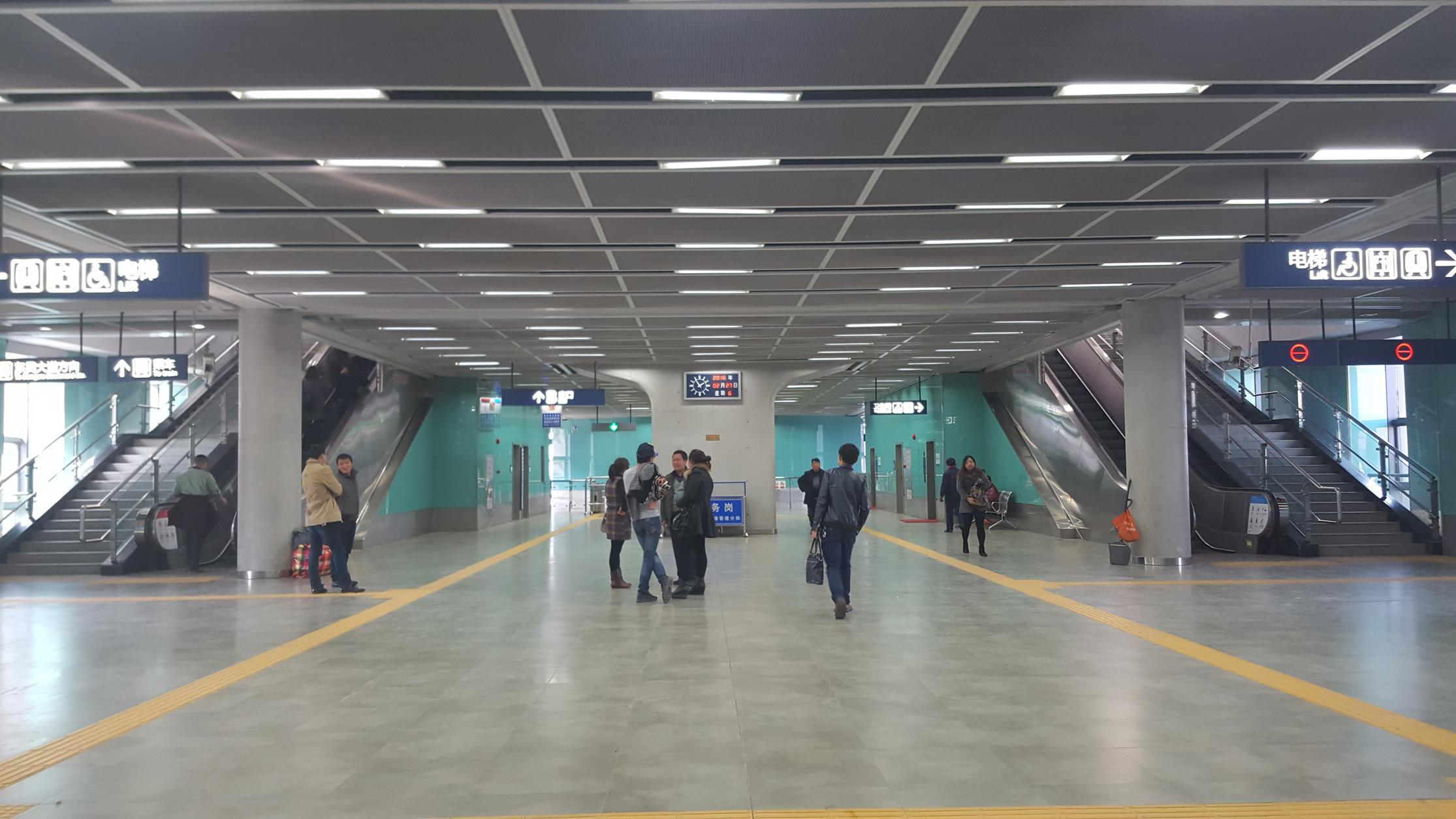 Concourse of Hankou North Station, Wuhan Metro